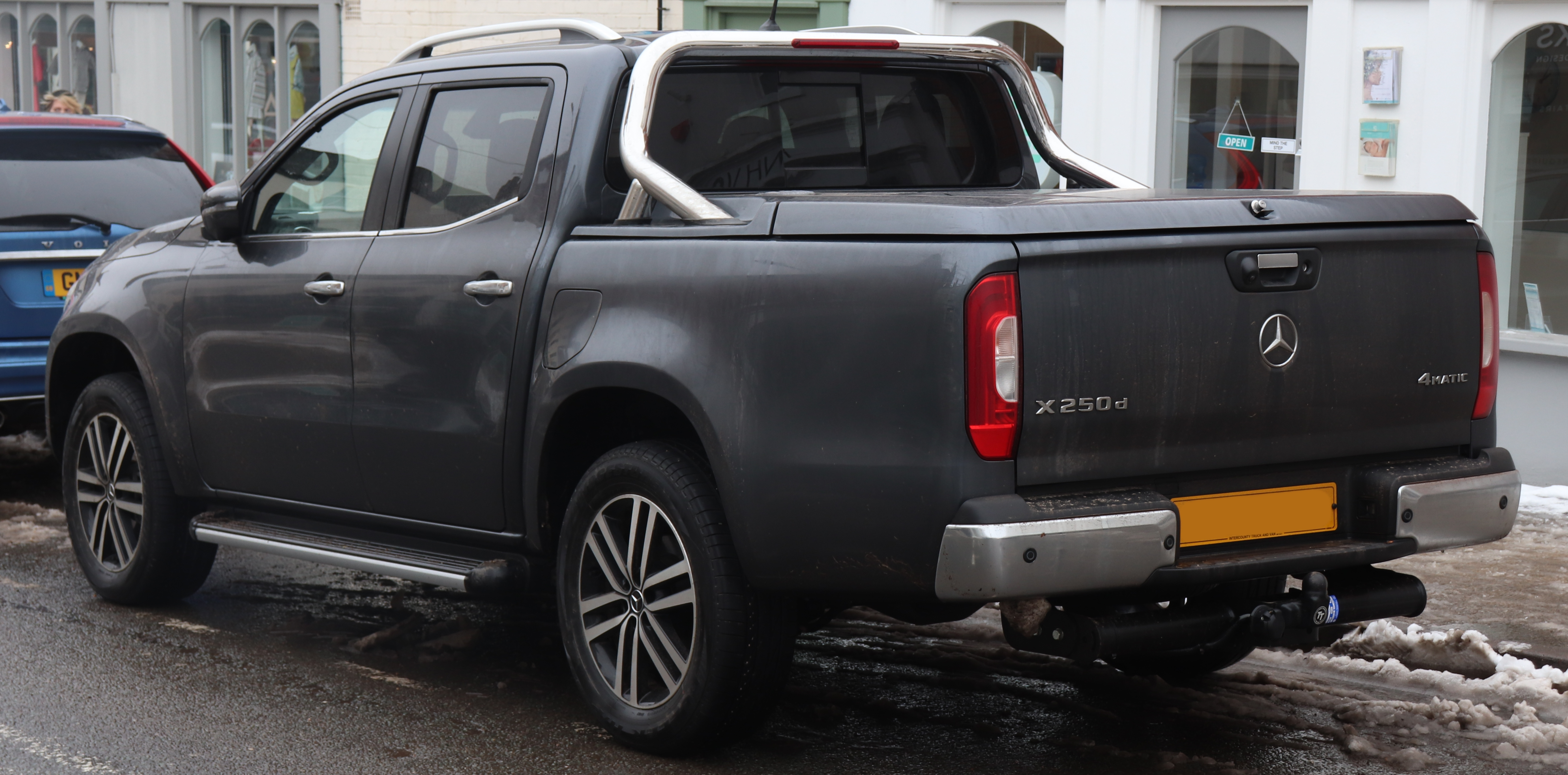 2018 Mercedes-Benz X250 Power D 4MATIC Automatic 2.3 Rear Taken in Leamington Spa